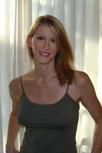 Snapshot of Andrea James, taken in Anaheim, California in 2007.